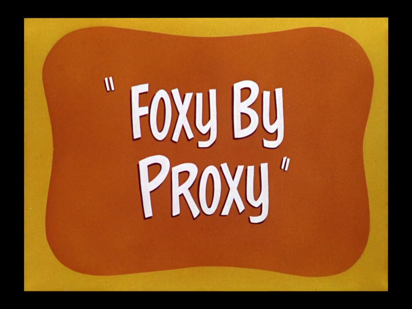 Title card for the Bugs Bunny short film "Foxy by Proxy."